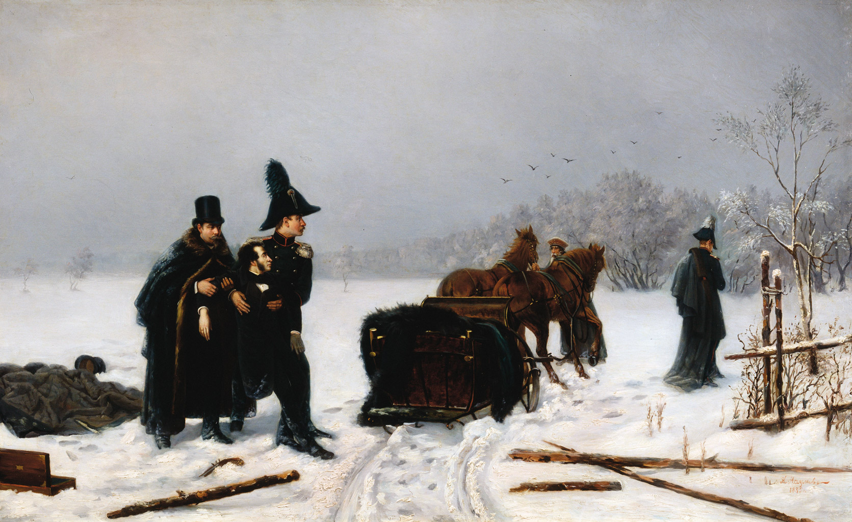 Alexander Pushkin's Duel with Georges d'Anthes. Painting by A. A. Naumov